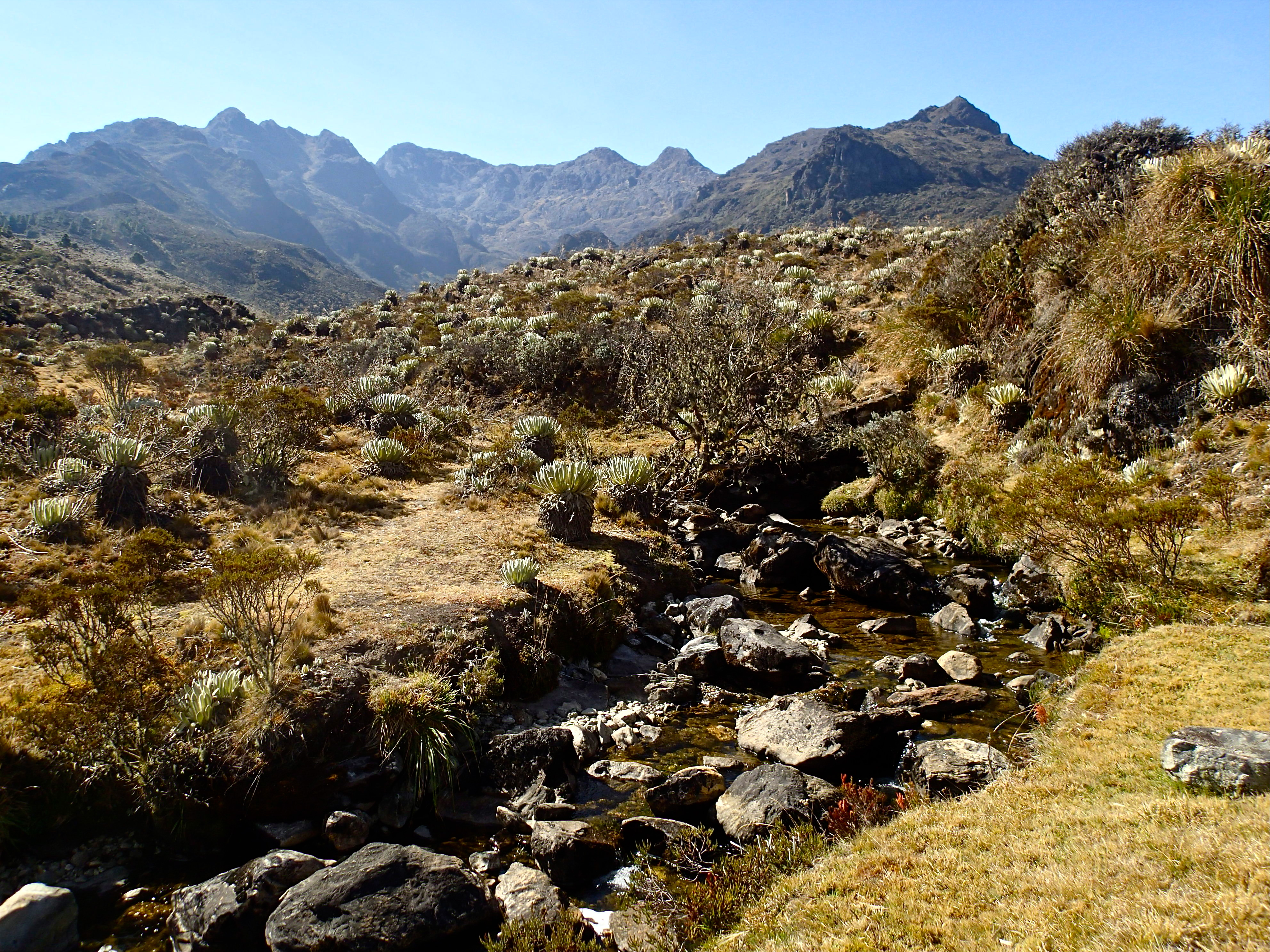 Vista del pico Mucuñuque desde el valle de morrena de la quebrada de Mucubají, Parque Nacional Sierra Nevada.